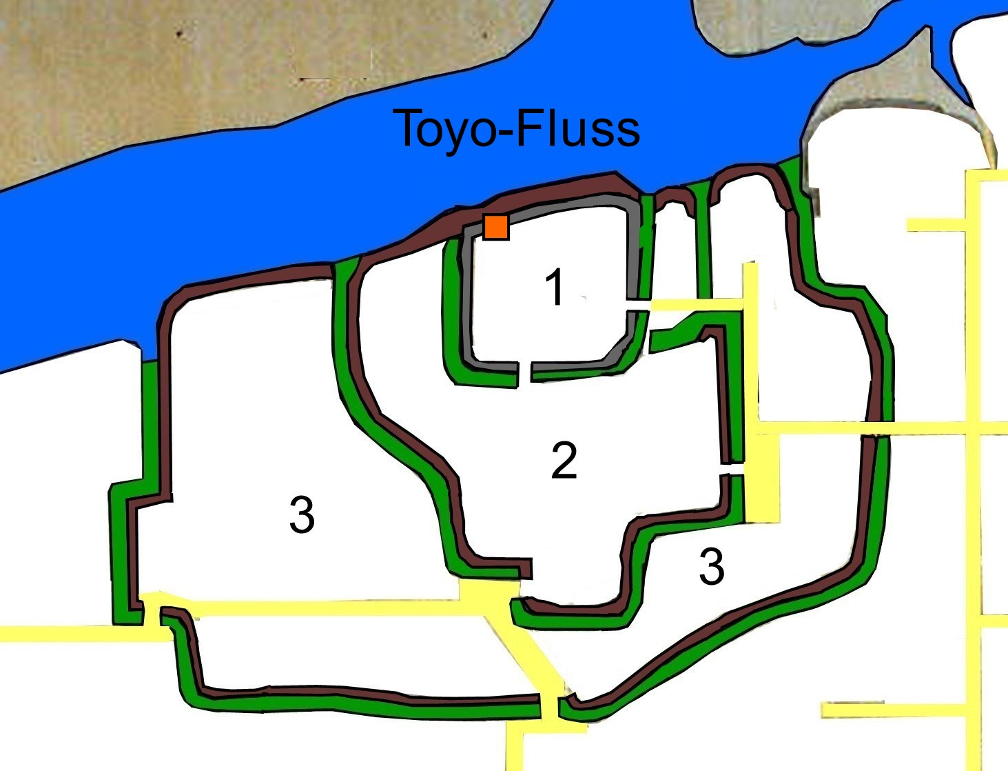 Layout of old Yoshida castle